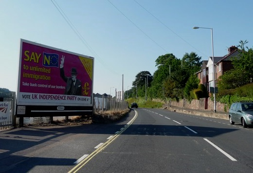 Exeter : Cowley Bridge Road & UKIP Hoarding Winston Churchill and a campaign to 'say no to unlimited immigration' on the UKIP advert.